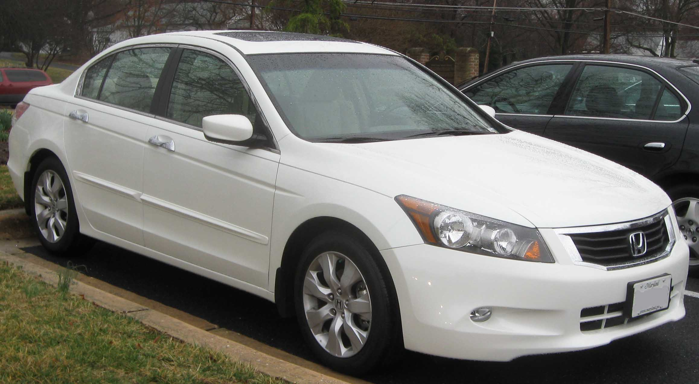 2008-2009 Honda Accord photographed in Fort Washington, Maryland, USA.